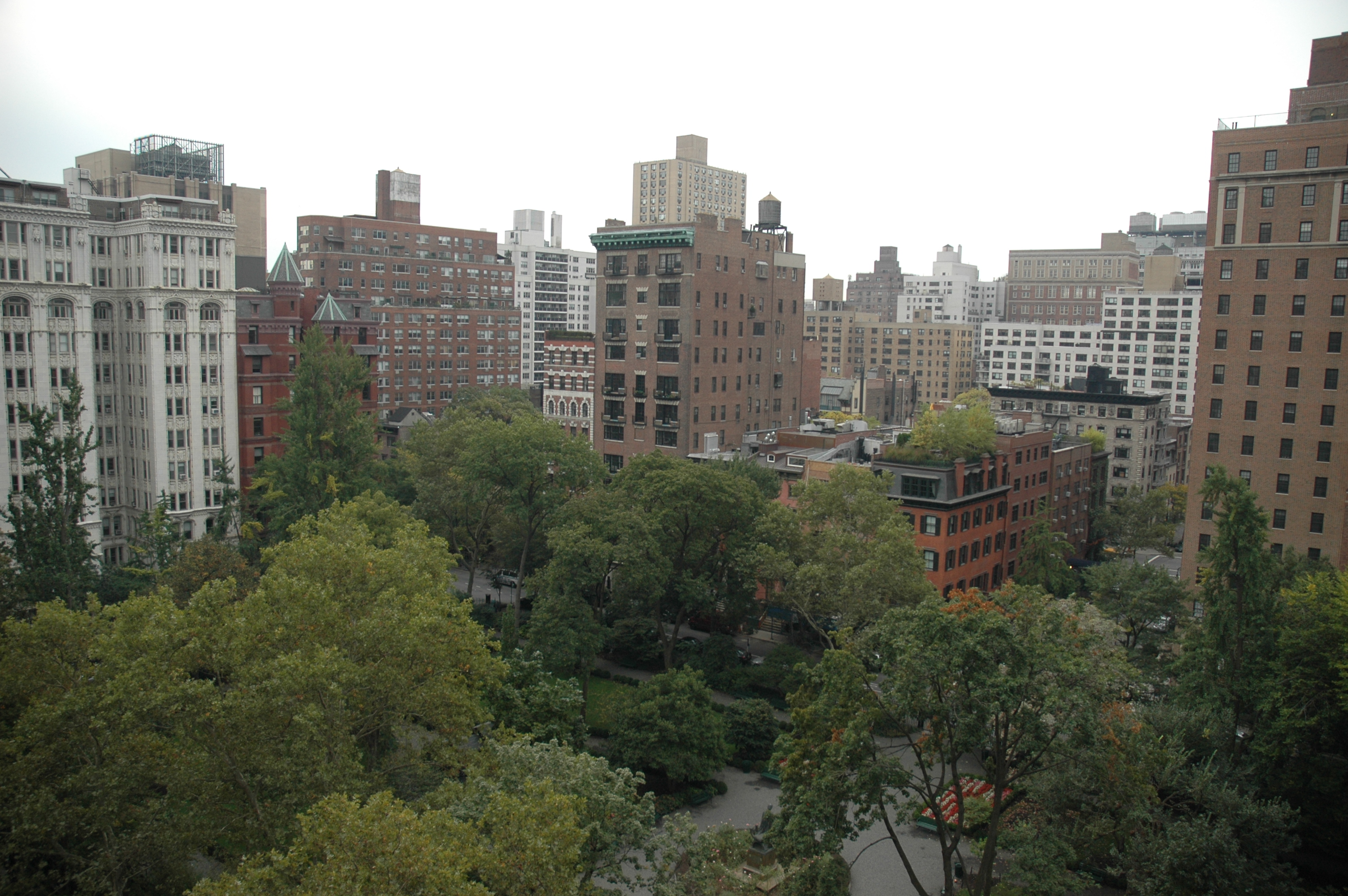 Gramercy Park neighborhood